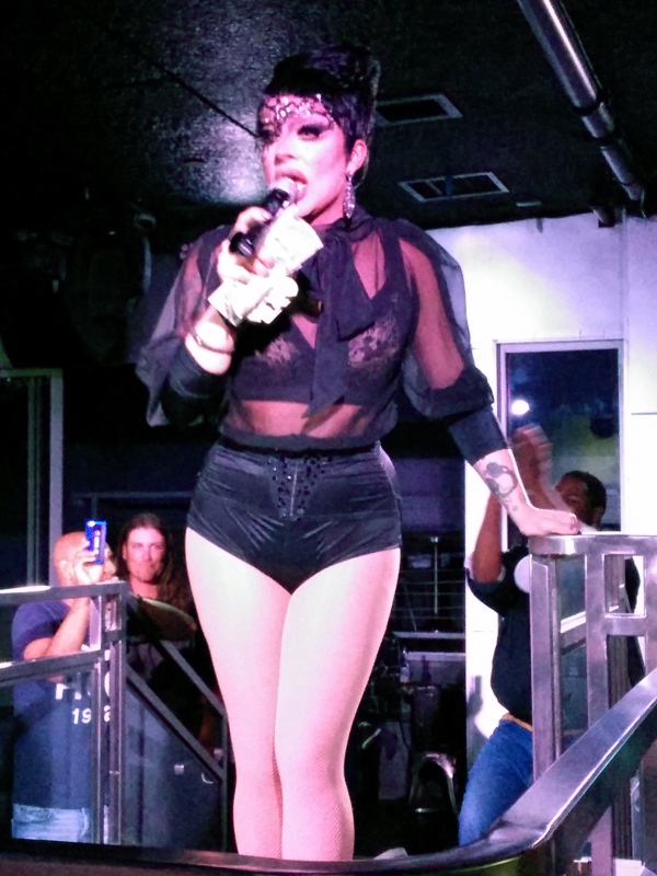 Raven performing "Imagine It Was Us" by Jessie Ware at The Café in San Francisco, California, United States.